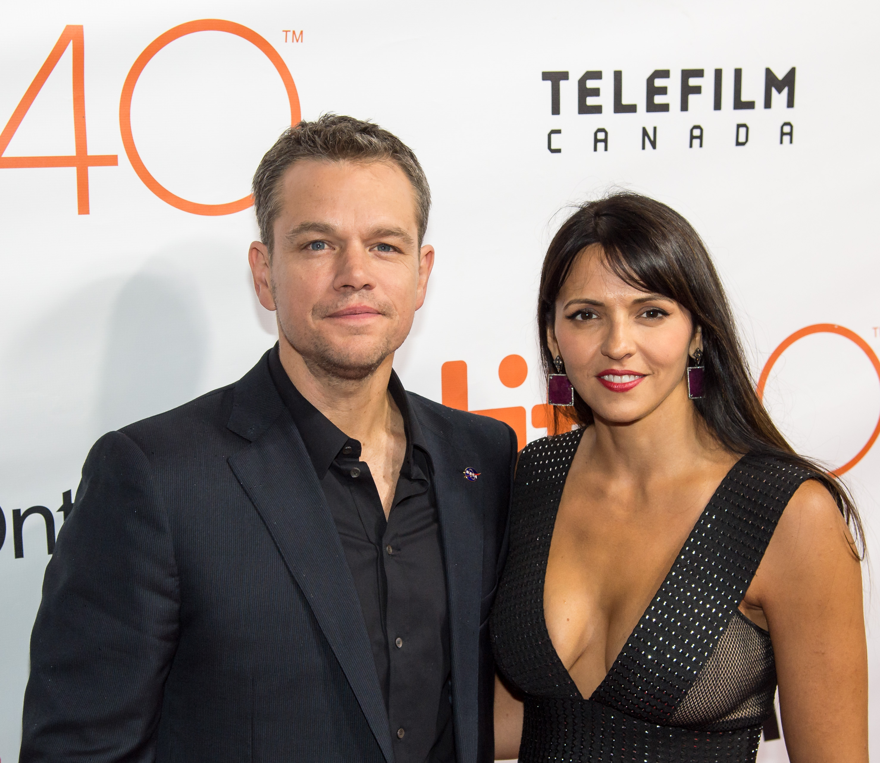 Actor Matt Damon and his wife Luciana Bozán Barroso attend the world premiere for "The Martian” on day two of the Toronto International Film Festival at the Roy Thomson Hall Friday, Sept. 11, 2015 in Toronto.